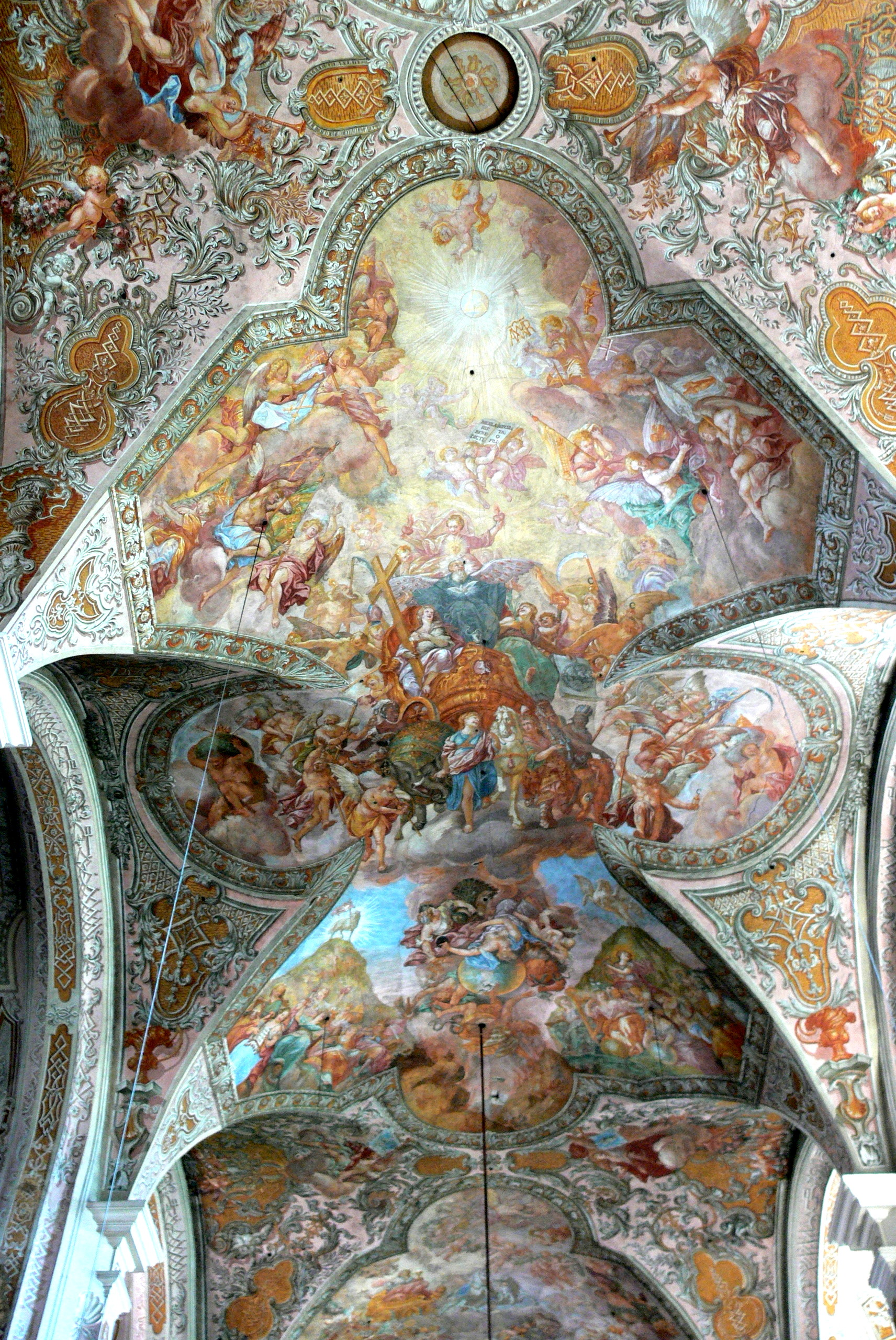 Oberaltaich abbey church ( Lower Bavaria ). Frescos ( 1730 ) at the ceiling of the nave by Joseph Anton Merz.